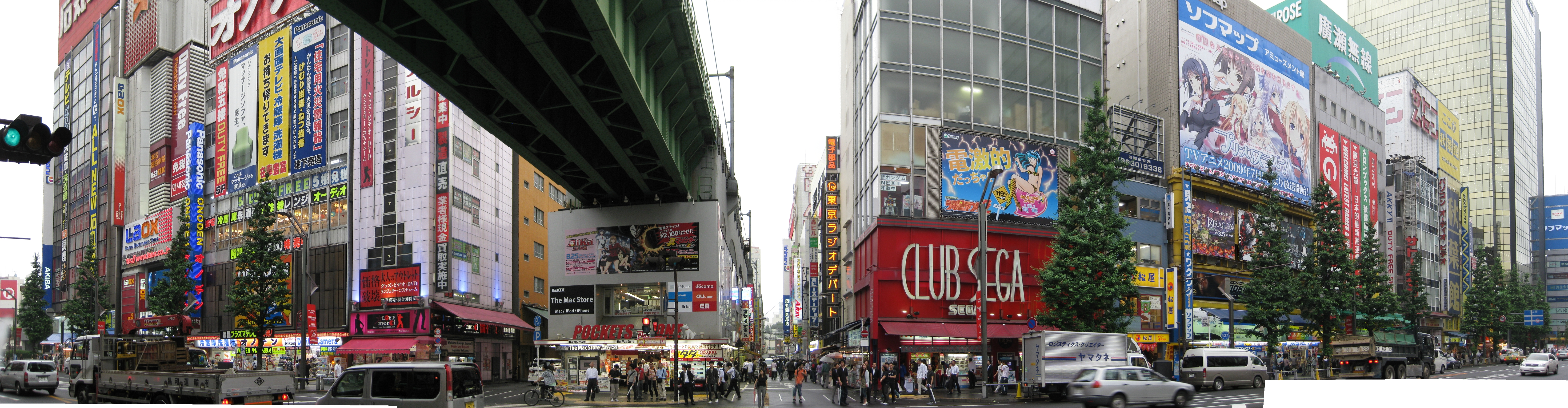 Near Akihabara station, Akihabara, Tokyo.